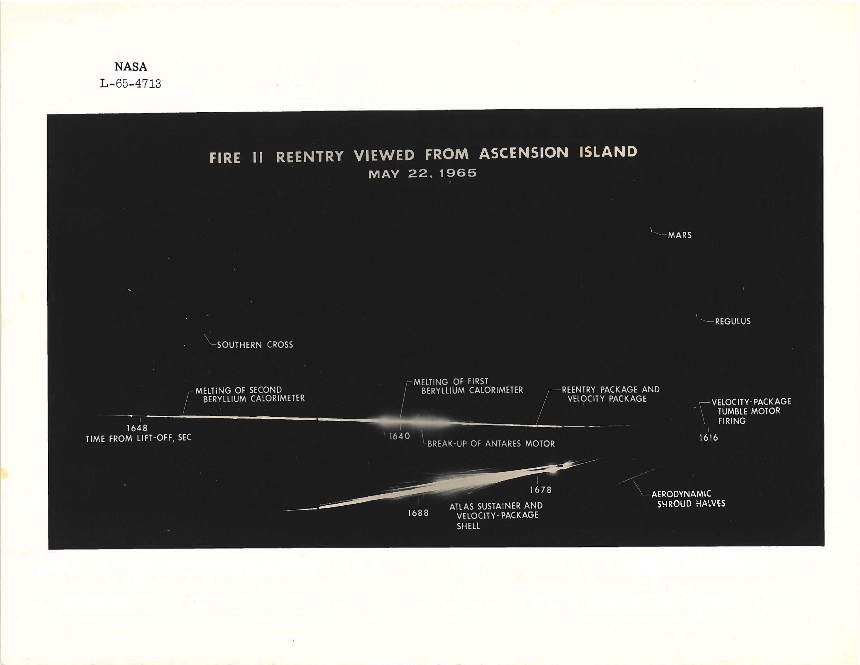 Photograph of the Fire 2 reentry, photographed from Ascension Island, South Atlantic Ocean